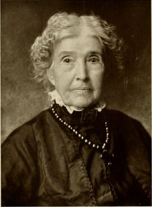 Elizabeth Avery Meriwether, Kajiwara Photo, Johnson, Anne (André) "Mrs. Charles P. Johnson", 1871-. Notable women of St. Louis, 1914; (Kindle Location 4402). [St. Louis, Woodward.]